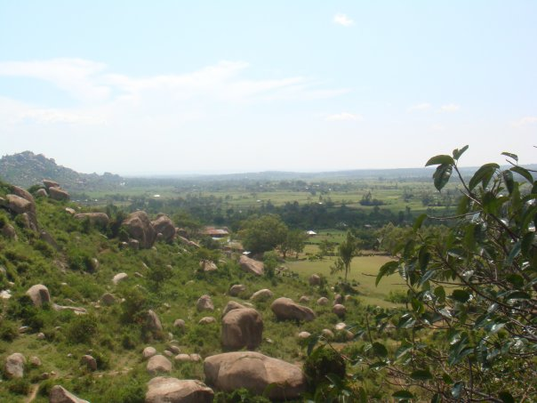 Landscape from Kit Mikayi